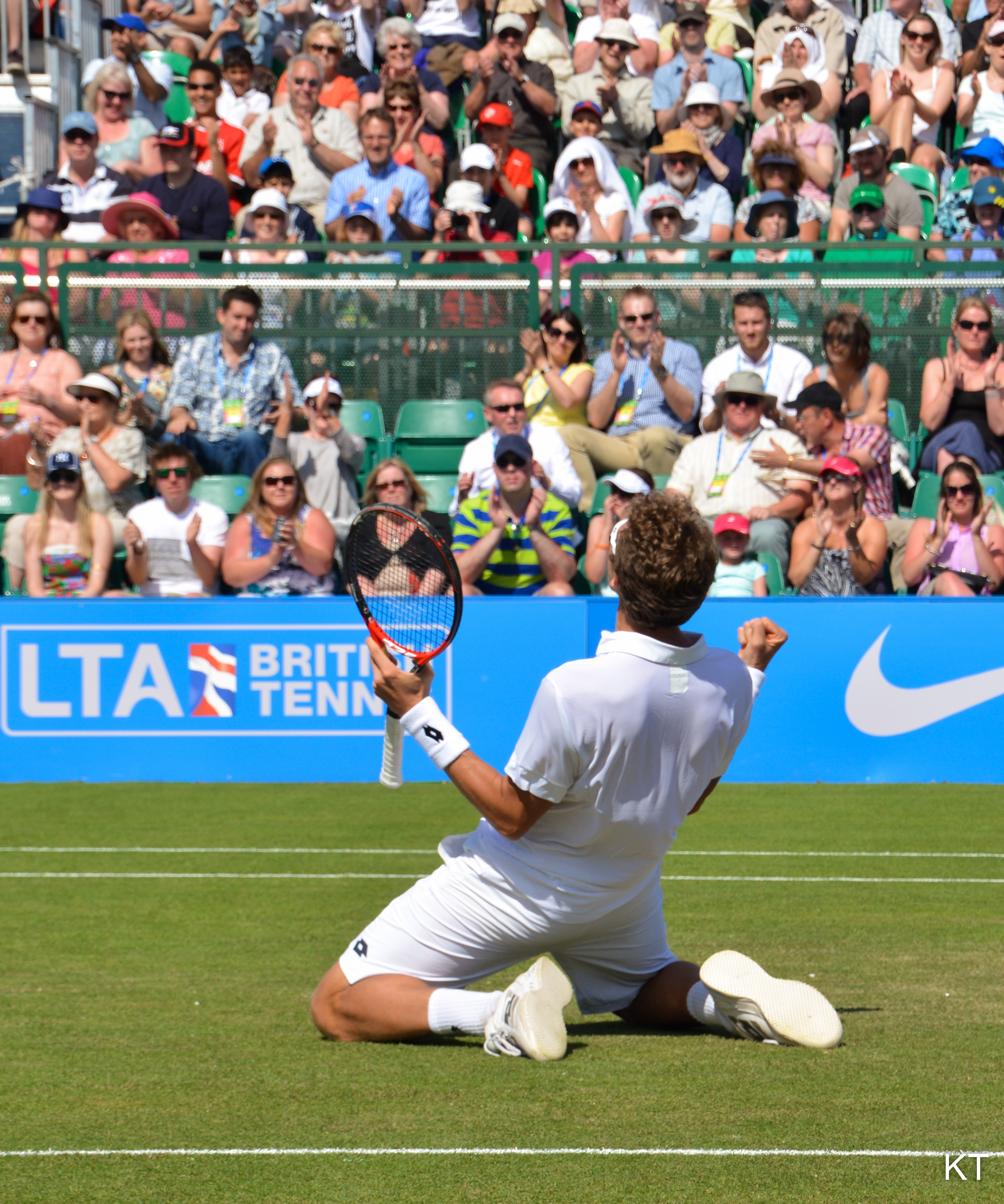 His first ATP title. Aegon Open, Nottingham 2015.